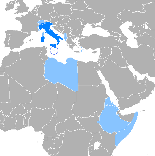 Italian language in the world.